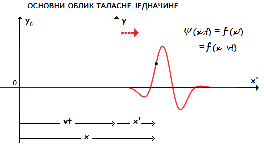 ТАЛАСНА ФУНКЦИЈА